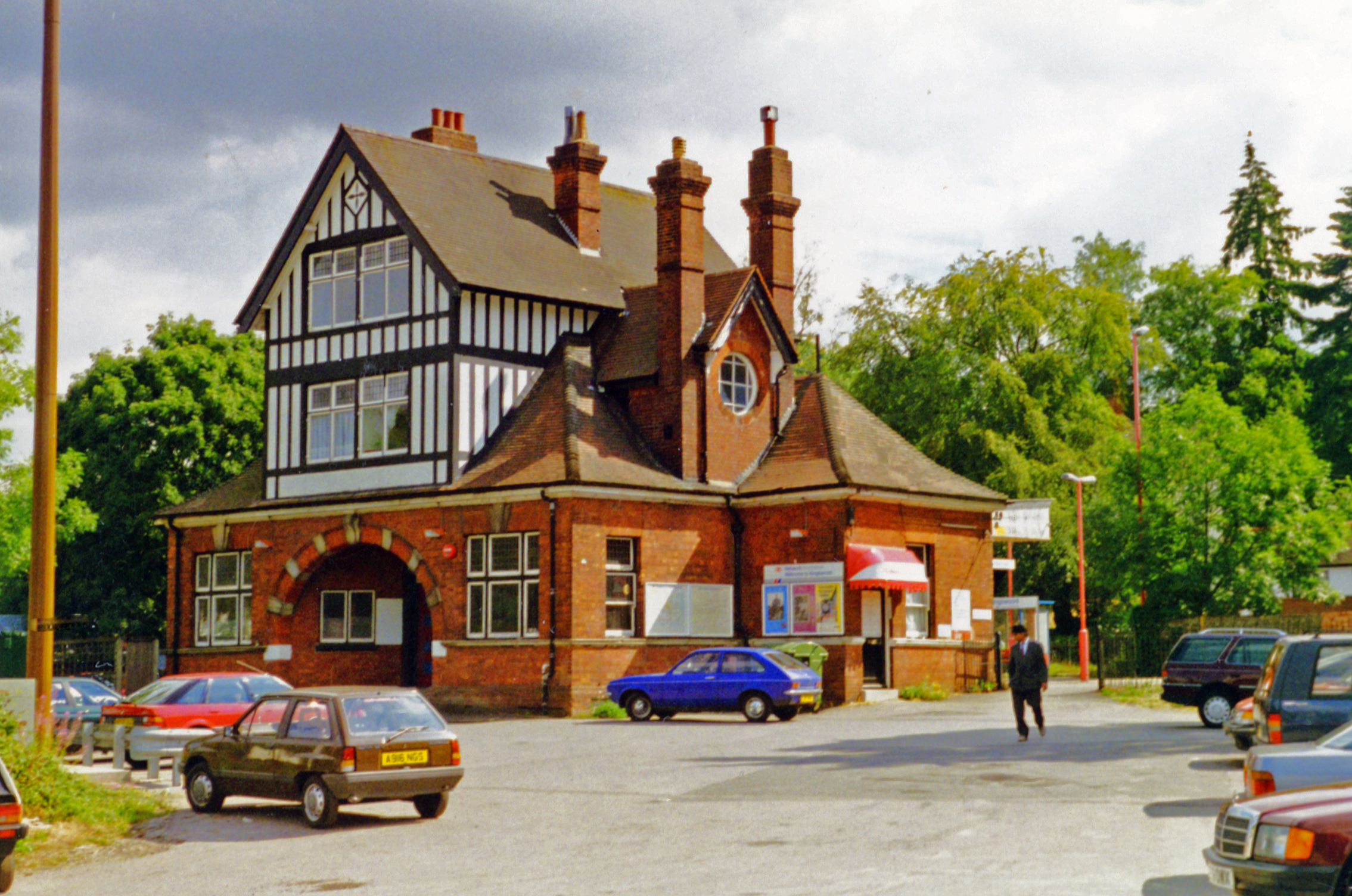 Kingswood station: remarkable architecture, 1995Seen from the road, exactly as TQ2456 : Kingswood railway station: buildings but 18 years earlier: ex-SE&CR Purley - Tattenham Corner branch.